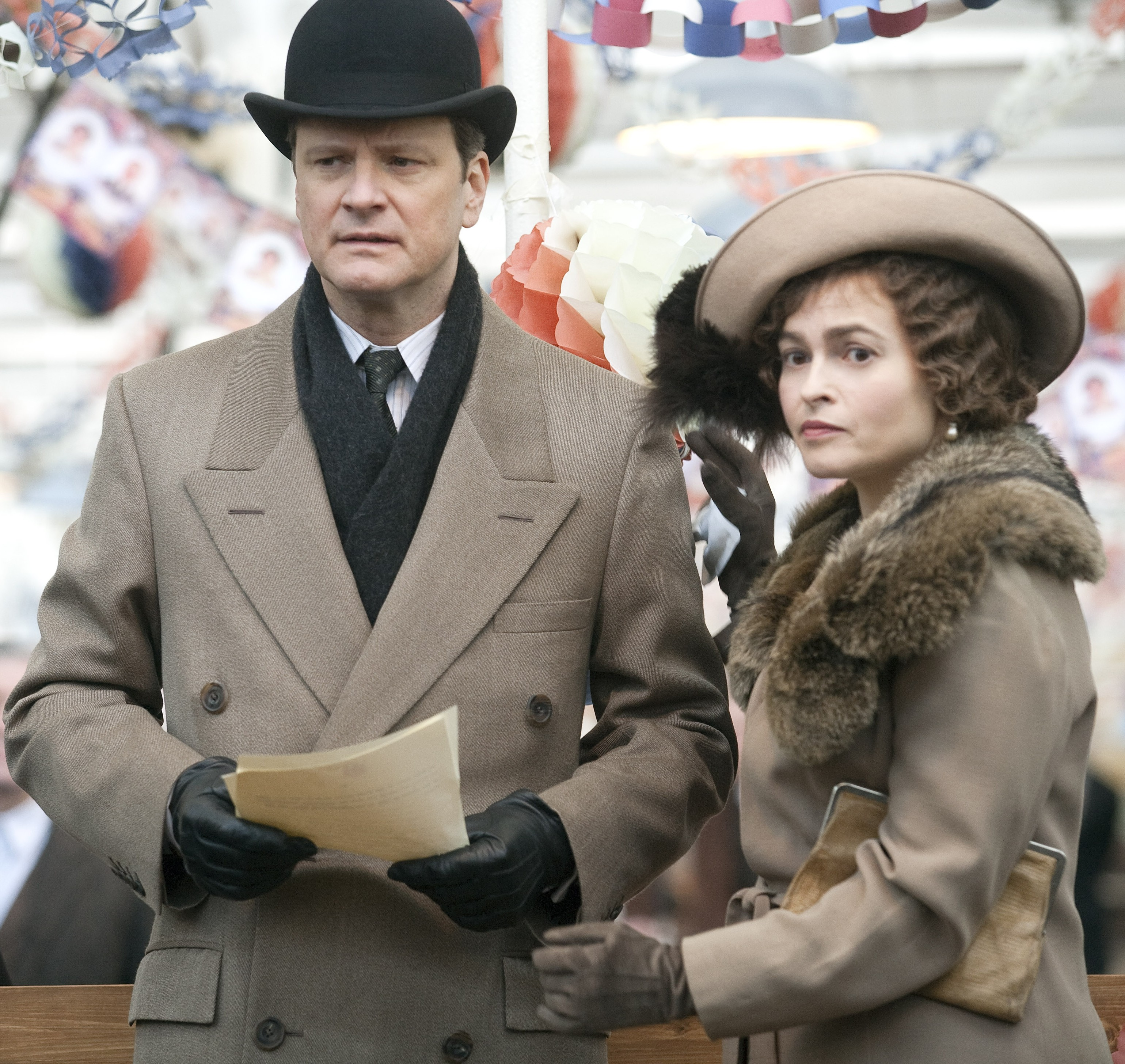 Colin Firth and Helena Bonham Carter filming The King's Speech at Queen Street Mill Textile Museum.